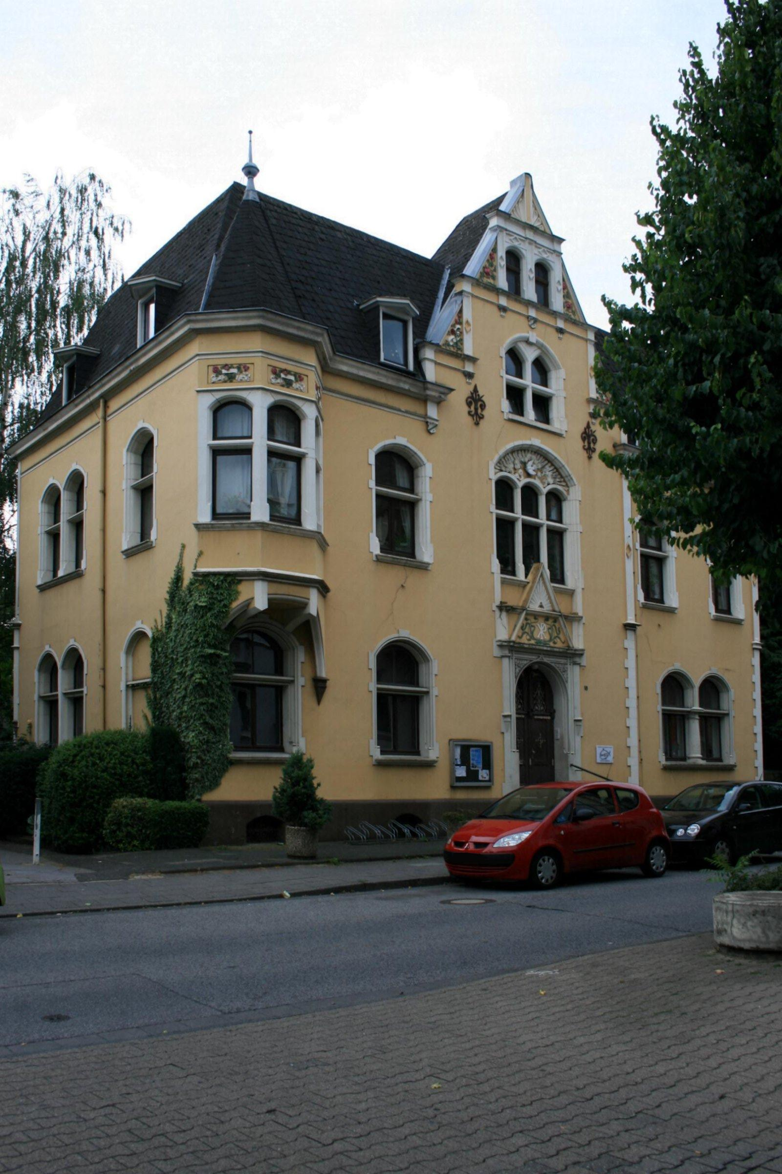 Cultural heritage monument No. W 036 in Mönchengladbach